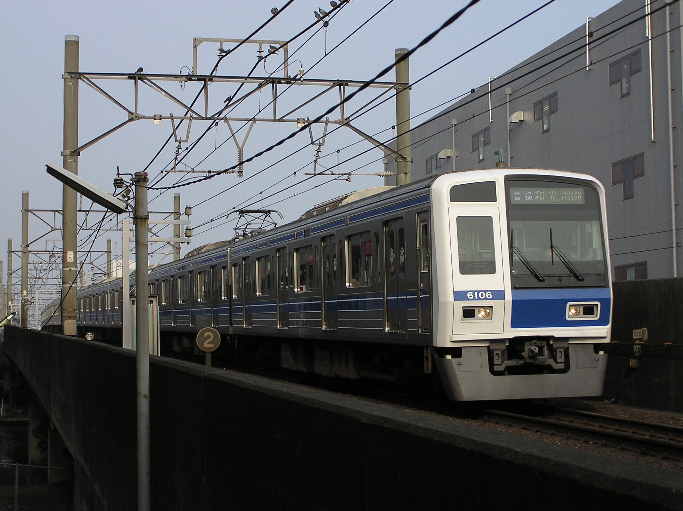 撮影地 Place of photo新木場～辰巳撮影の状況 How to take公道から撮影 At public roadトリミングの有無 Cropped or not非トリミング Not Cropped内容 Description西武6000系6106F Seibu 6000 series